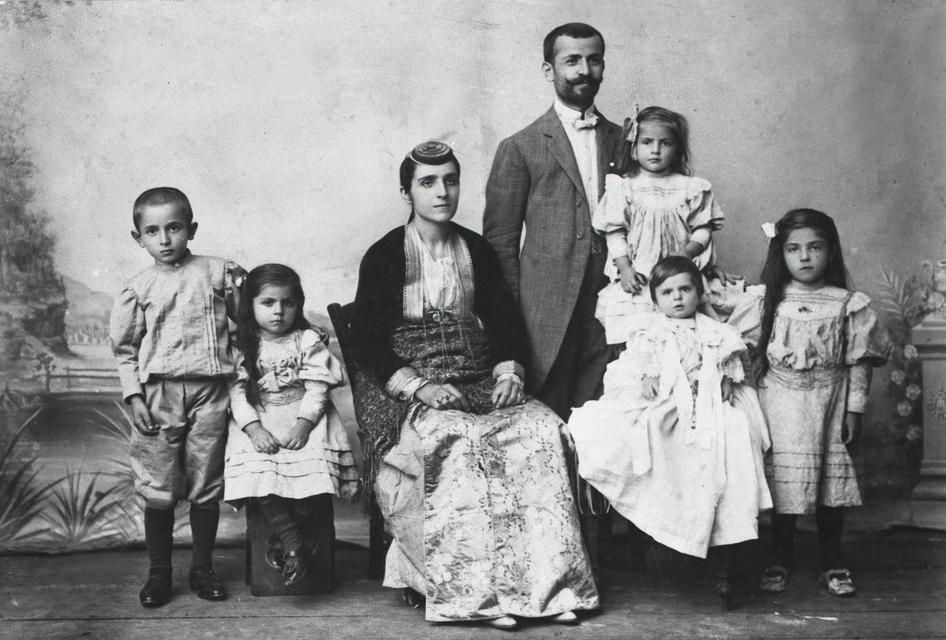 Pontian Greek family of Kerasounta (modern Giresun) [1], while women continued to dress in traditional dress, the men began to adopt western style clothing